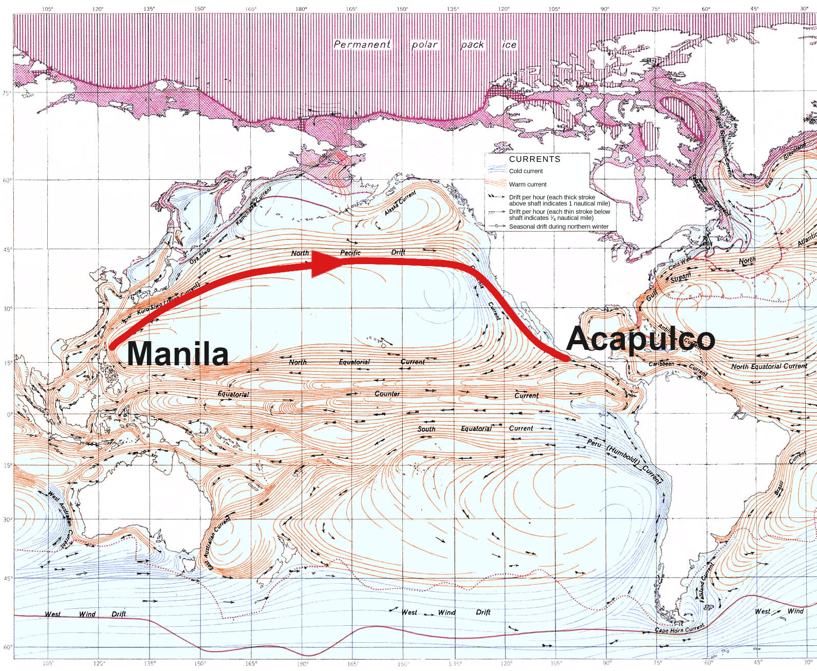 The Spanish Manila-Acapulco galleon (Tornaviaje) trade finally began when Urdaneta discovered the eastward route in 1565, from the Spanish East Indies (Philippines) to New Spain (México). Andrés de Urdaneta (1498-1568) was a 16th century Spanish explorer, navigator, geographer, and scientist. The Pacific galleons' ports were Cavite and Acapulco, then goods went overland in México to/from the port of Veracruz and Atlantic Flota de Indias galleons to/from the Casa de Contratación in Seville, and after 1717 in Cadiz, Spain.